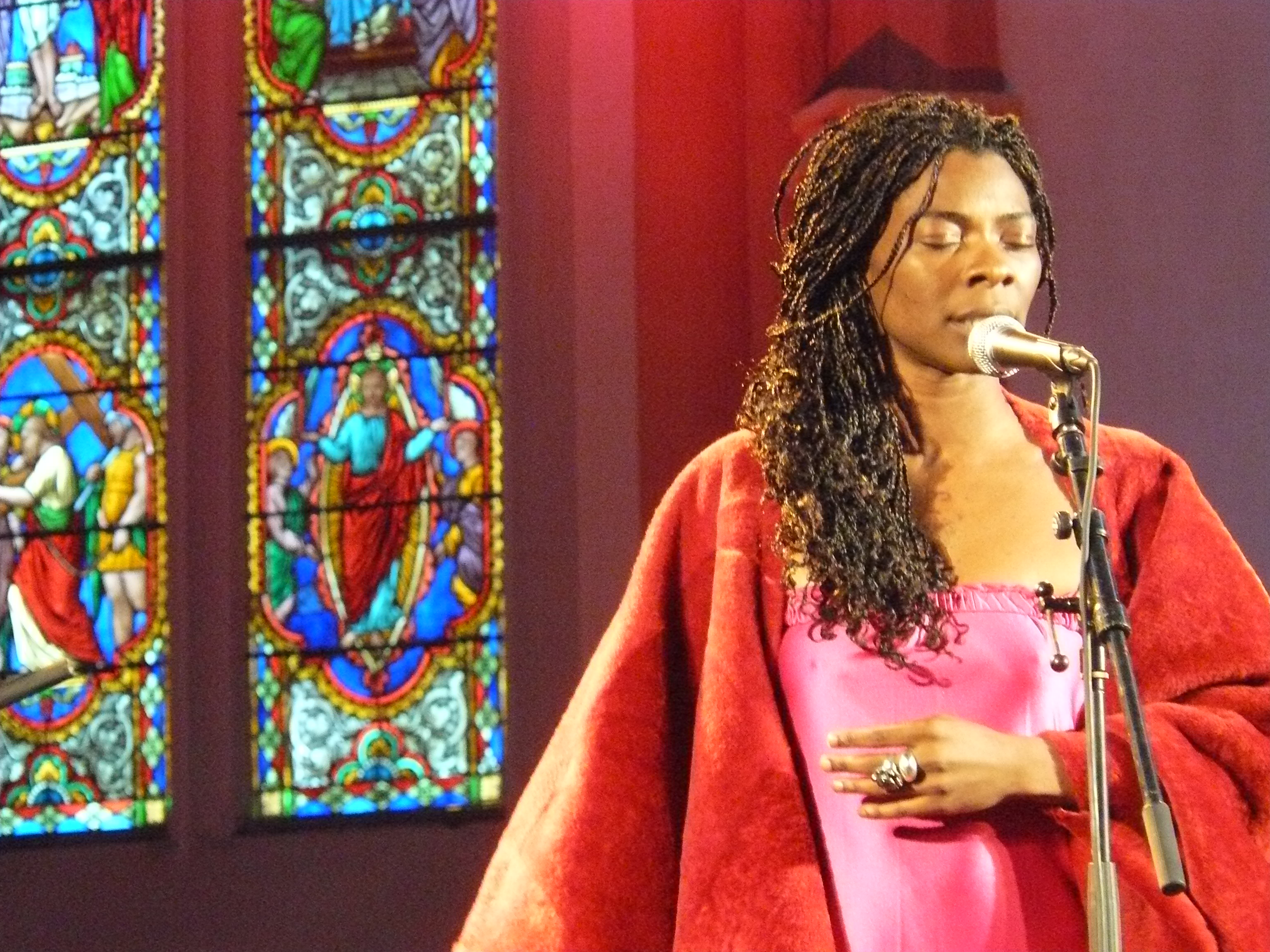 Concha Buika, a Spanish singer of équato-Guinean origin. She mixes the flamenco with the soul, the jazz, the funk and the copla. Concert in the Church of Villars ( 42 ) France, during the Rhino Jazz festival